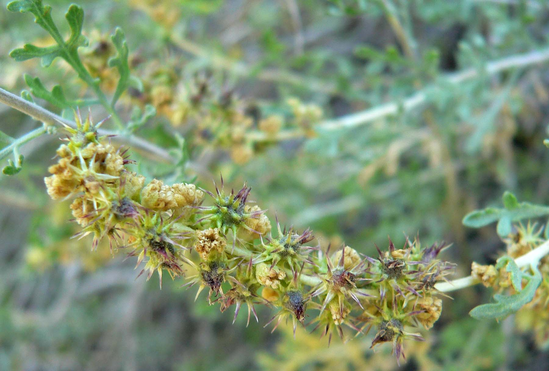 Photo of Ambrosia dumosa (white bur-sage) at the Springs Preserve garden in Las Vegas, Nevada